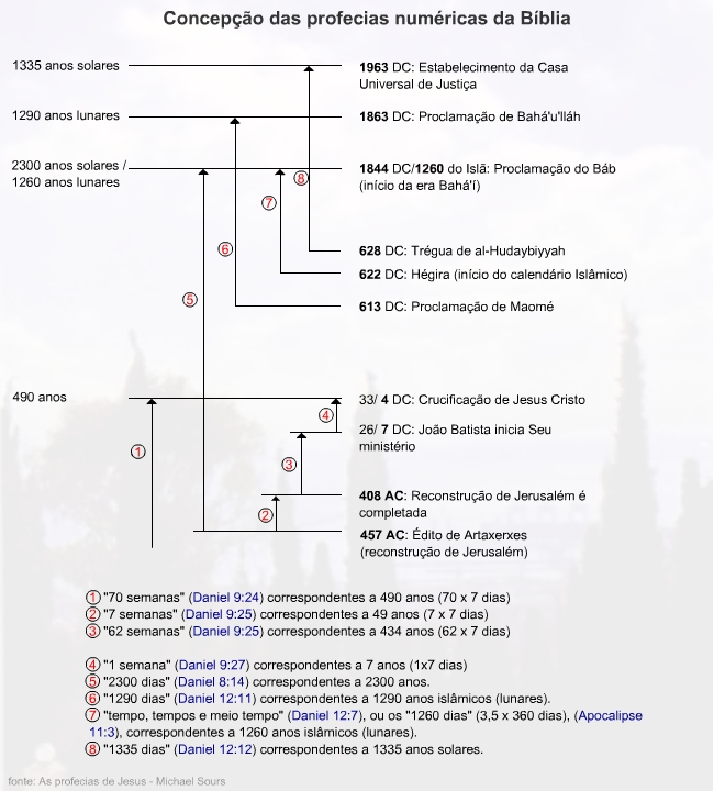 Portuguese interporetation of Bahai religion as fulfilment of prophecies of Biblical book of Daniel